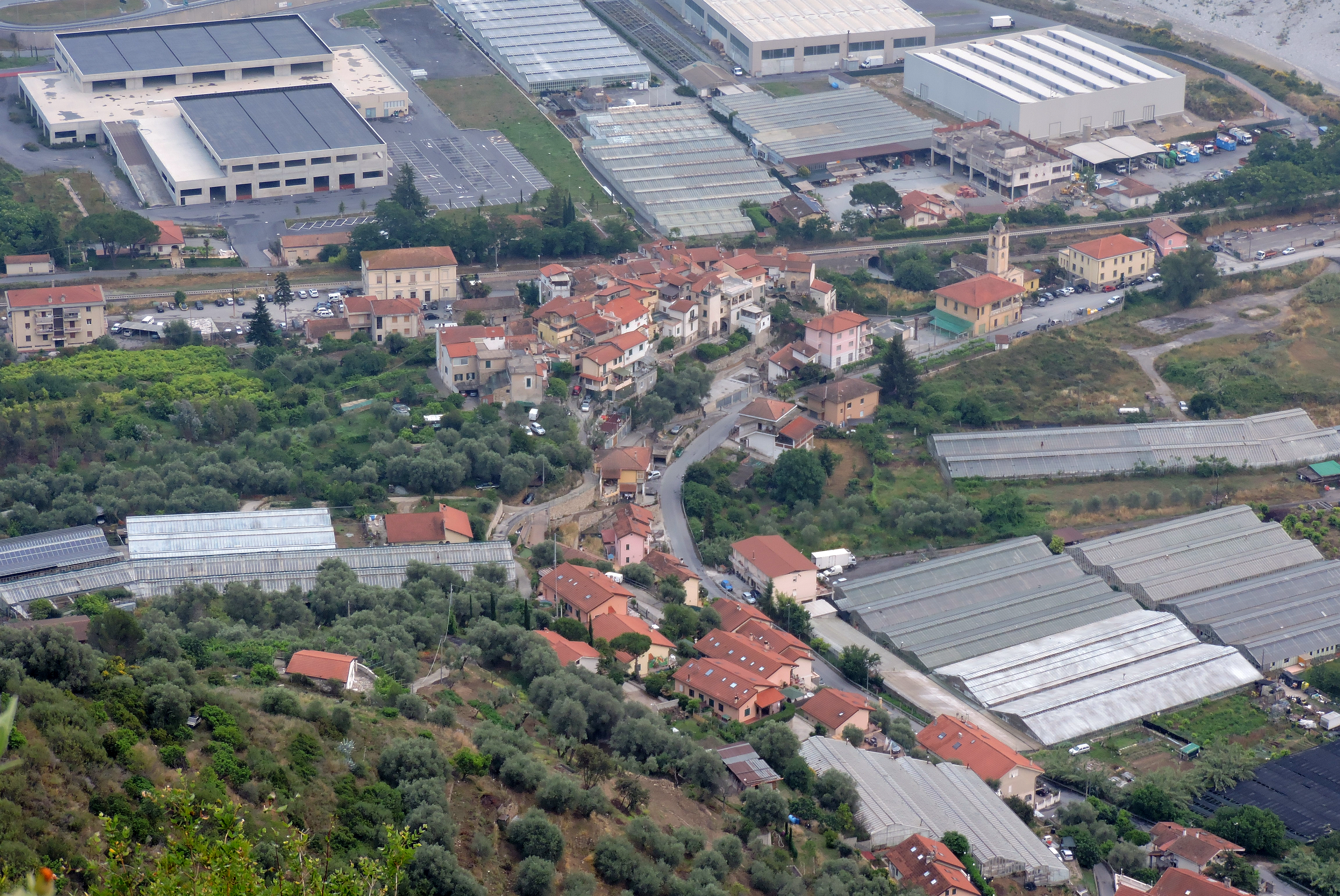 Bevera (Ventimiglia, IM, Italy): panorama from Colla di Bevera slopes